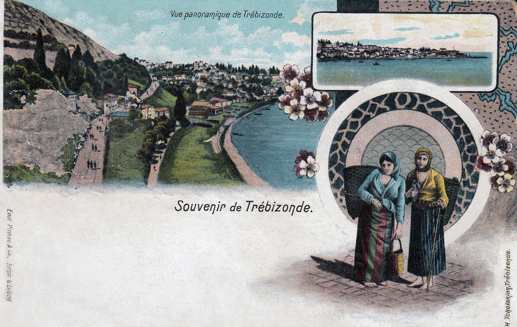 Postcard from Trebizond (Trabzon).